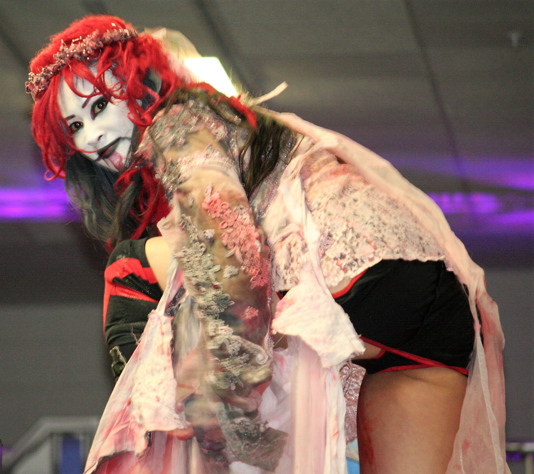 Independent wrestler Su Yung at the Queens of Combat show during Wrestlecade Weekend in Winston Salem, NC